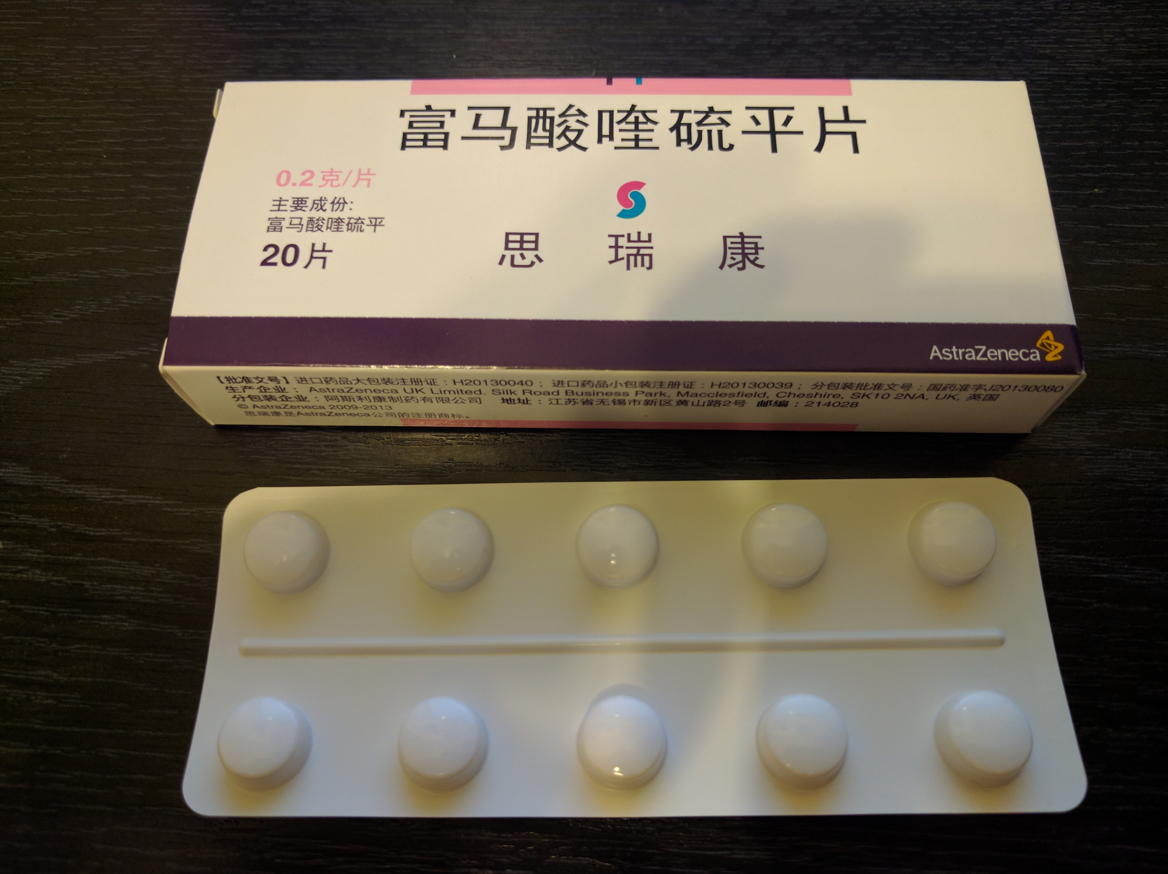 Quetiapine Tablets (Seroquel®) sales in Mainland China